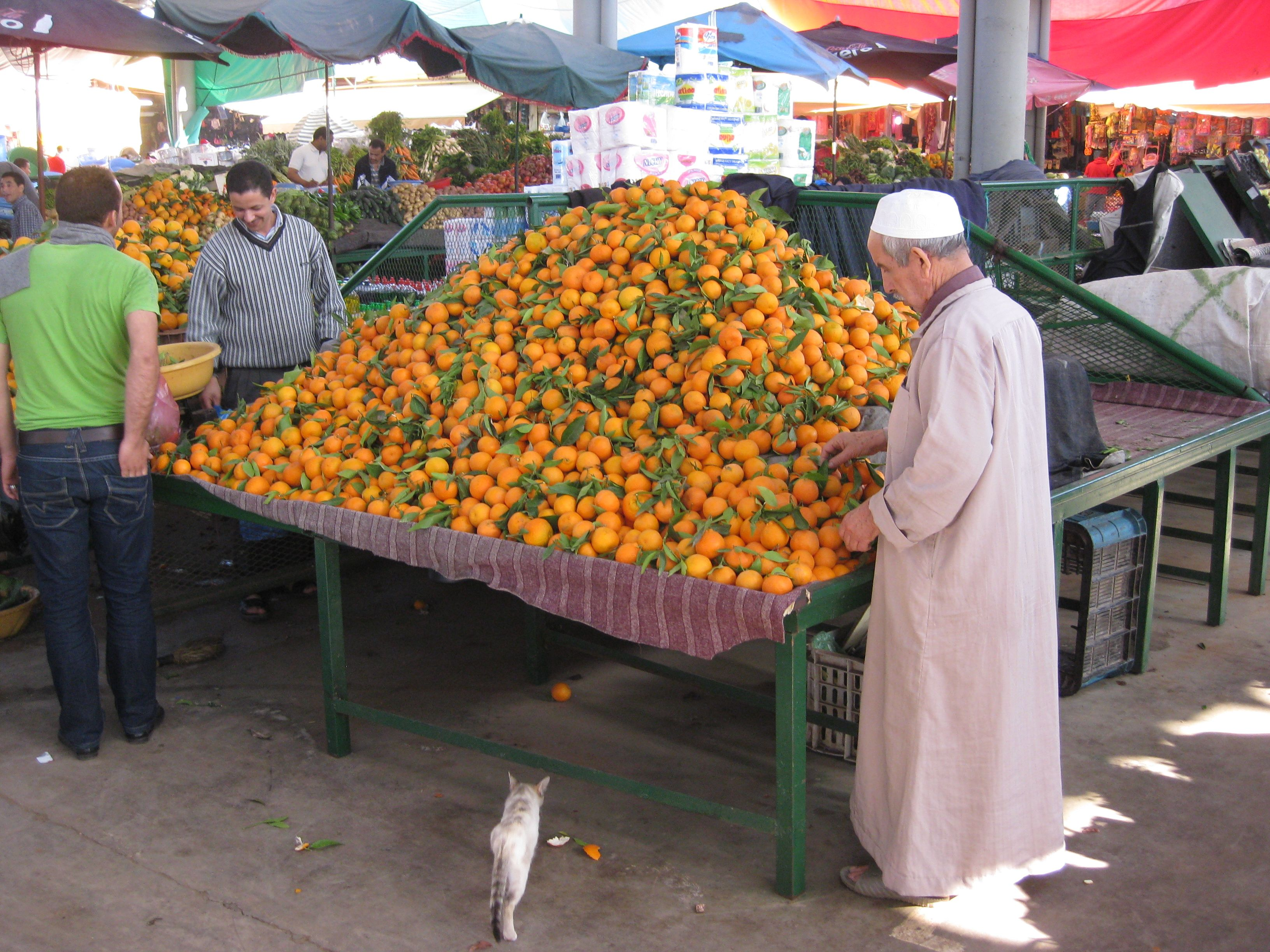 Morocco, Agadir: sales stand for oranges in the local market/Marché Al Had (souk).